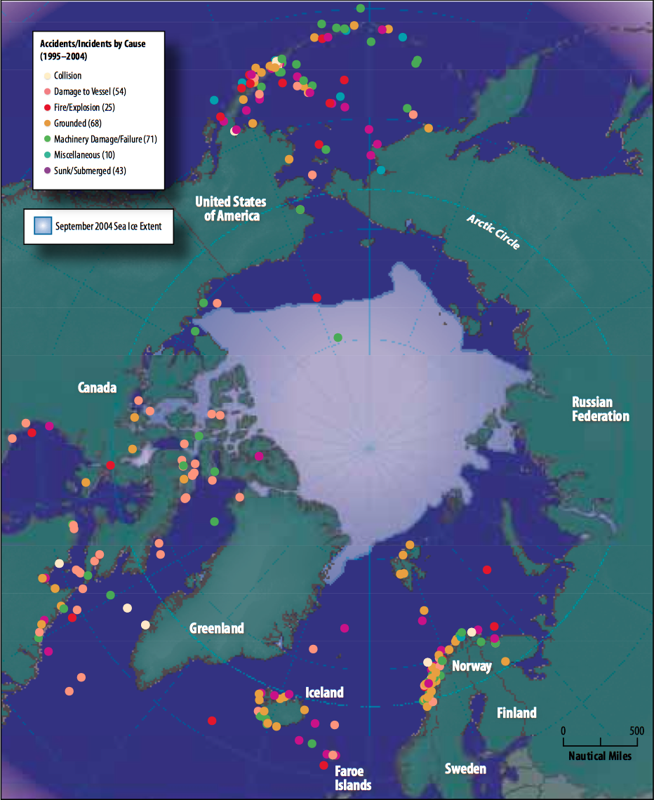 Arctic shipping accidents and incidents causes, 1995-2004.